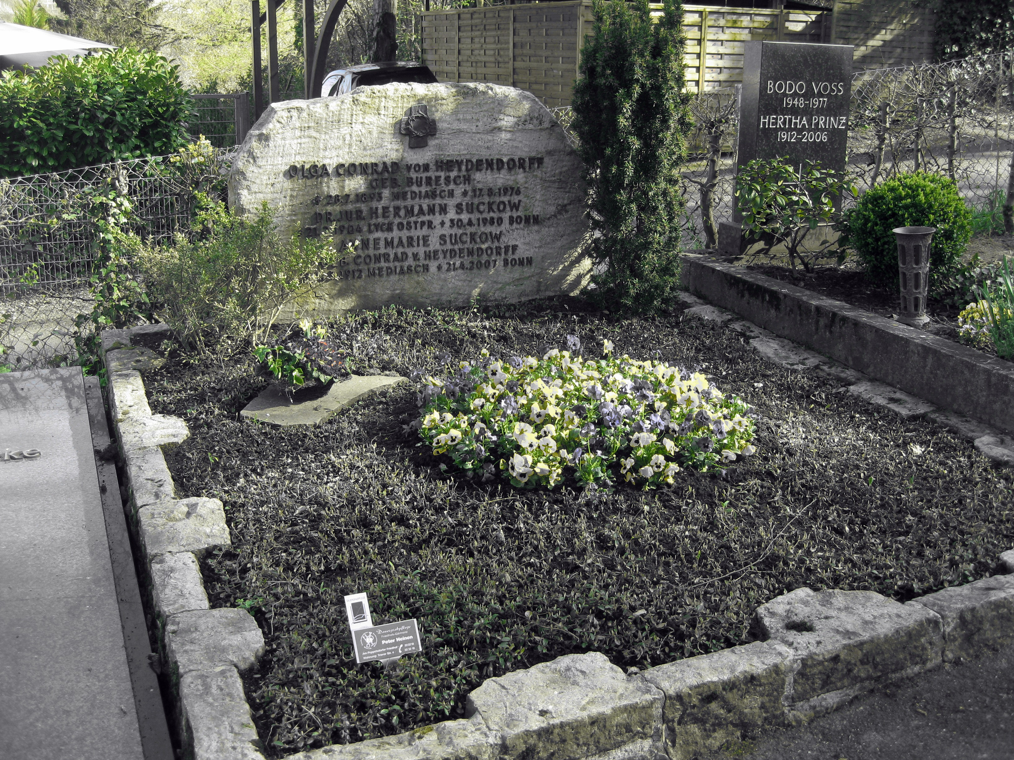 graveyard of Annemarie Suckow von Heydendorff, Bonn, Germany (Poppelsdorfer Friedhof)